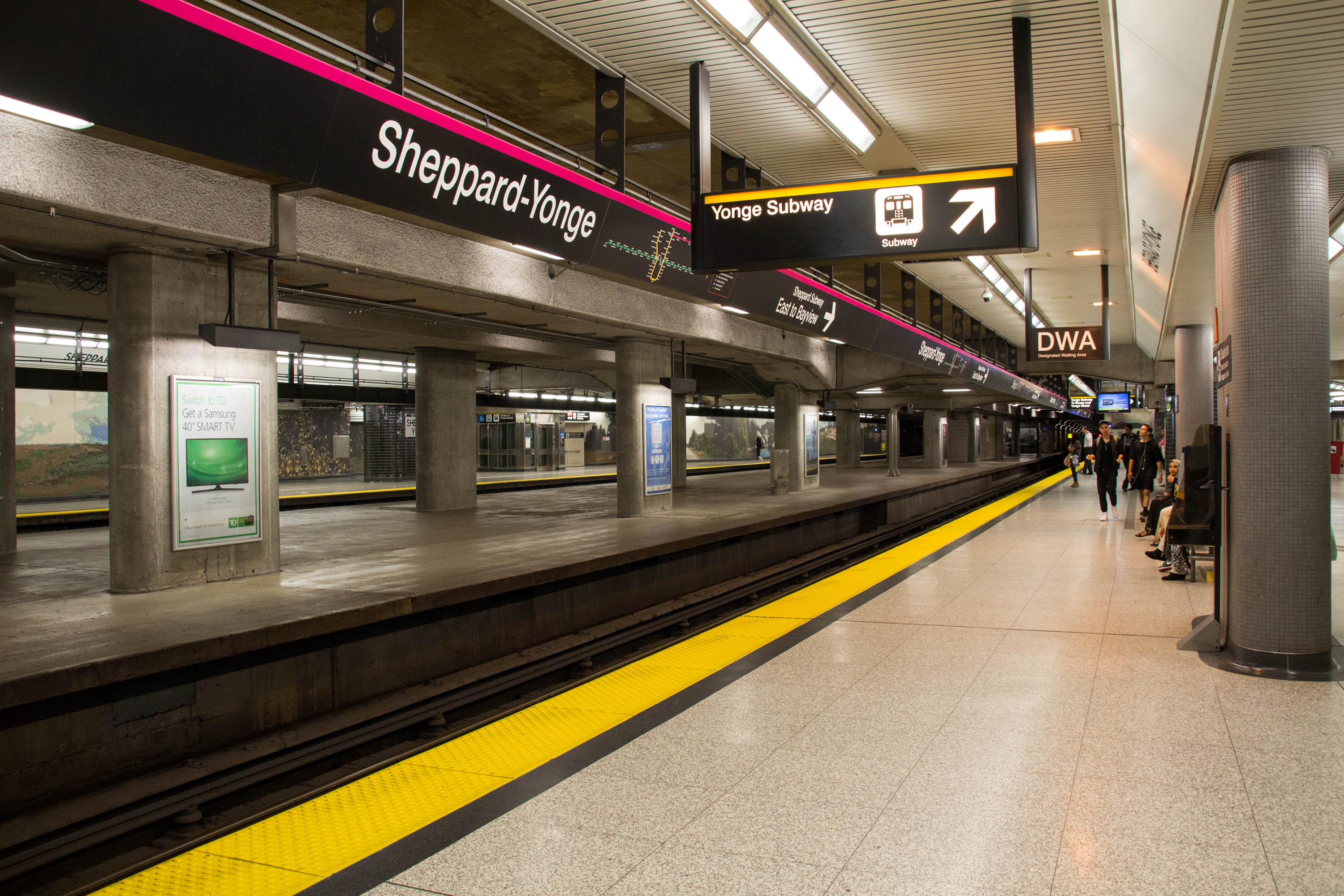 Sheppard Line platform showing roughed in Spanish Solution platform